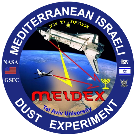 This is the logo of the MEIDEX Mission on board the NASA Space Shuttle Columbia. An official logotype of the NASA/Israel MEIDEX Mission on board the NASA Space Shuttle Columbia.